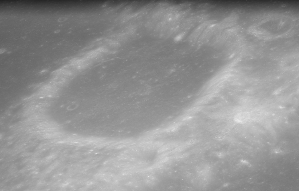 Oblique view of Pomortsev crater, facing north, on the moon.